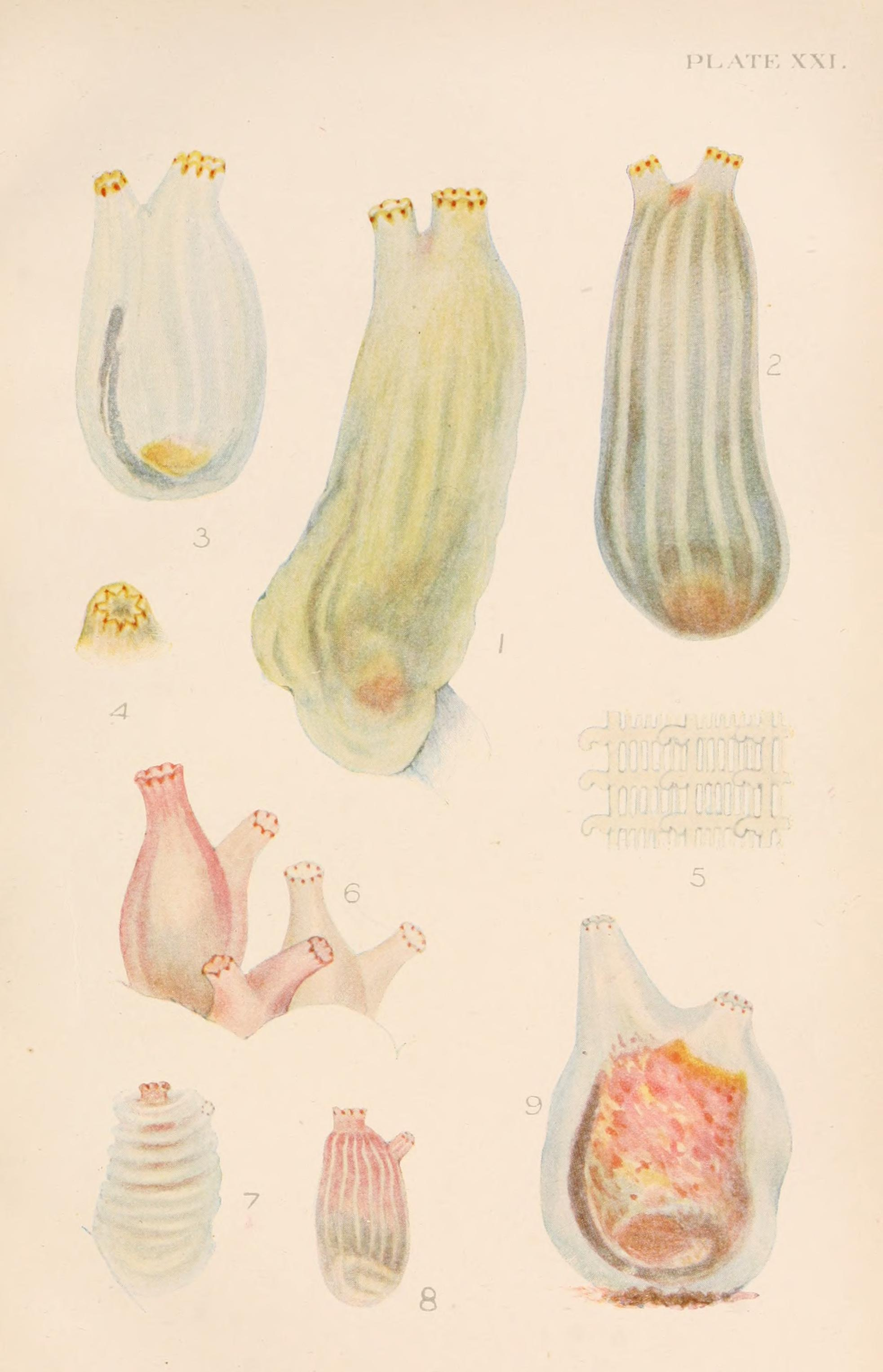 Alder, Joshua, Embleton, Dennis, Hancock, Albany, Hopkinson, John,Norman, Alfred Merle ,1905-12 The British Tunicata; an unfinished monograph, by the late Joshua Alder and the late Albany Hancock. Edited by John Hopkinson, with a history of the work by the Rev. A. M. Norman.London,Printed for the Ray Society. Volume 2 Plate 22 PLATE XXI. FIGS. 1-5. Ciona intestinalis (Linn.) Flem. (p. 9) 1 and 2. Test (1, fully expanded; 2, slightly contracted). 3. Test of a young individual. 4. Branchial aperture.5. Part of branchial sac : magnified. accepted as Ciona intestinalis (Linnaeus, 1767 6-8. Ciona pulchella Alder, (p. 14) 6. A group of individuals with test extended. 7. A single individual with test contracted. 8. Mantle. synonym for Ciona intestinalis (Linnaeus, 1767 9. Corella parallelogrammma (Müll.) Hanc. (p. 25) Test. accepted as Corella parallelogramma (O F Müller, 1776) All the figures, except 5, natural size.